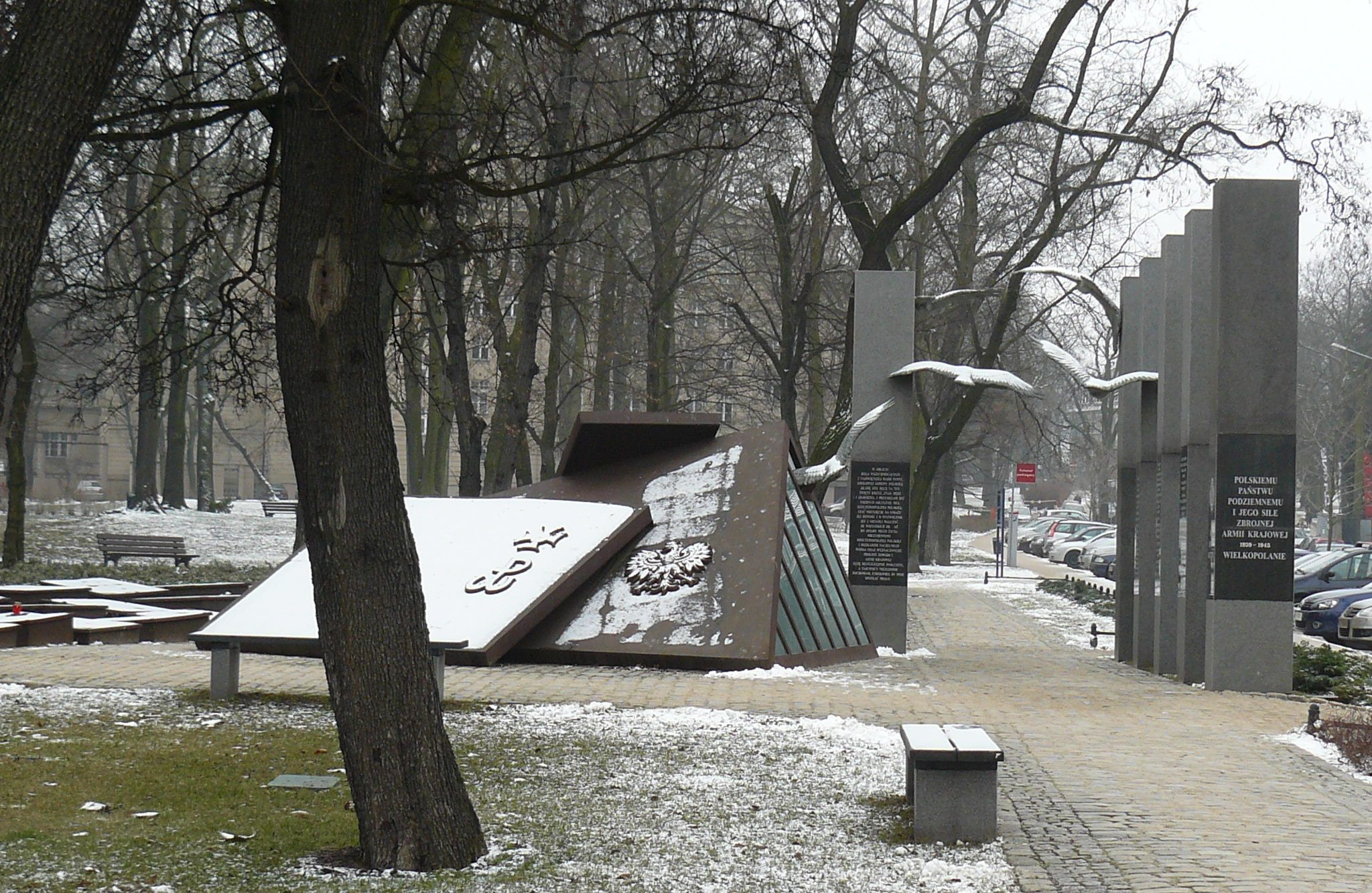 Polish Undergrund State Monument - Poznan.